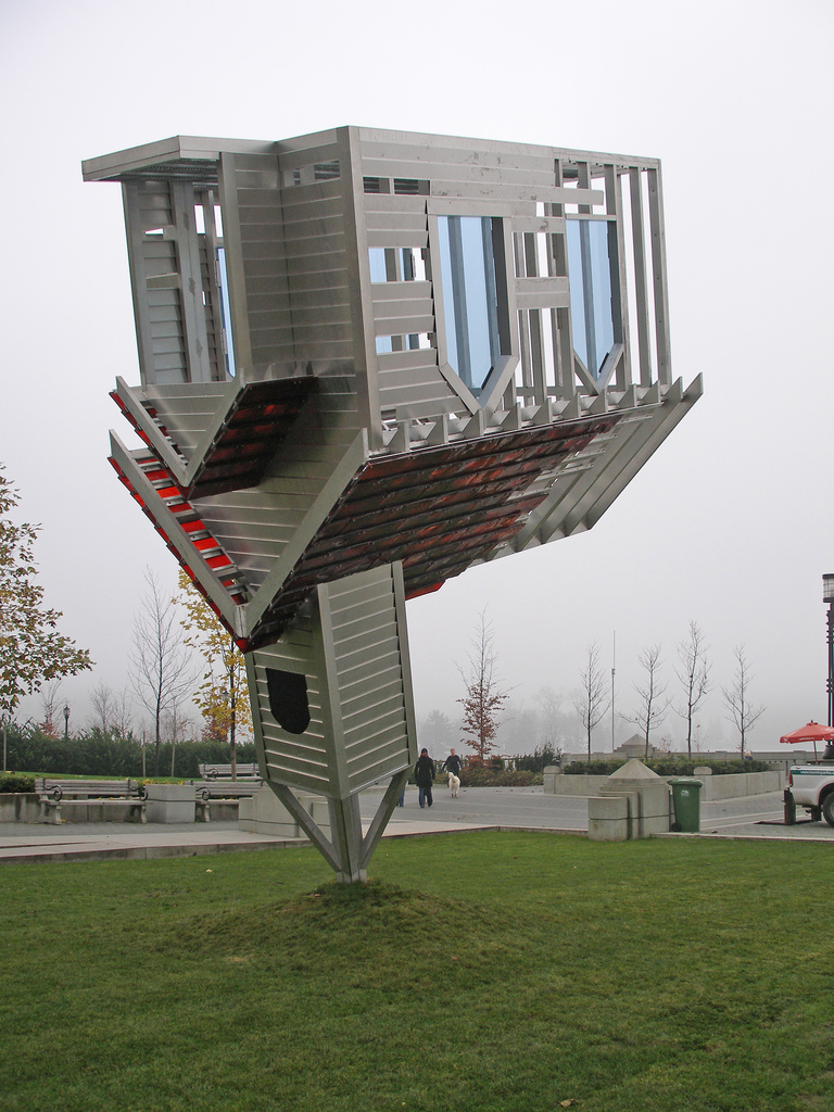 Device to Root Out Evil is a 1997 sculpture by Dennis Oppenheim installed in Vancouver, British Columbia, Canada. It is made of galvanized structural steel, anodized perforated aluminum, transparent red Venetian glass, and has concrete foundations.